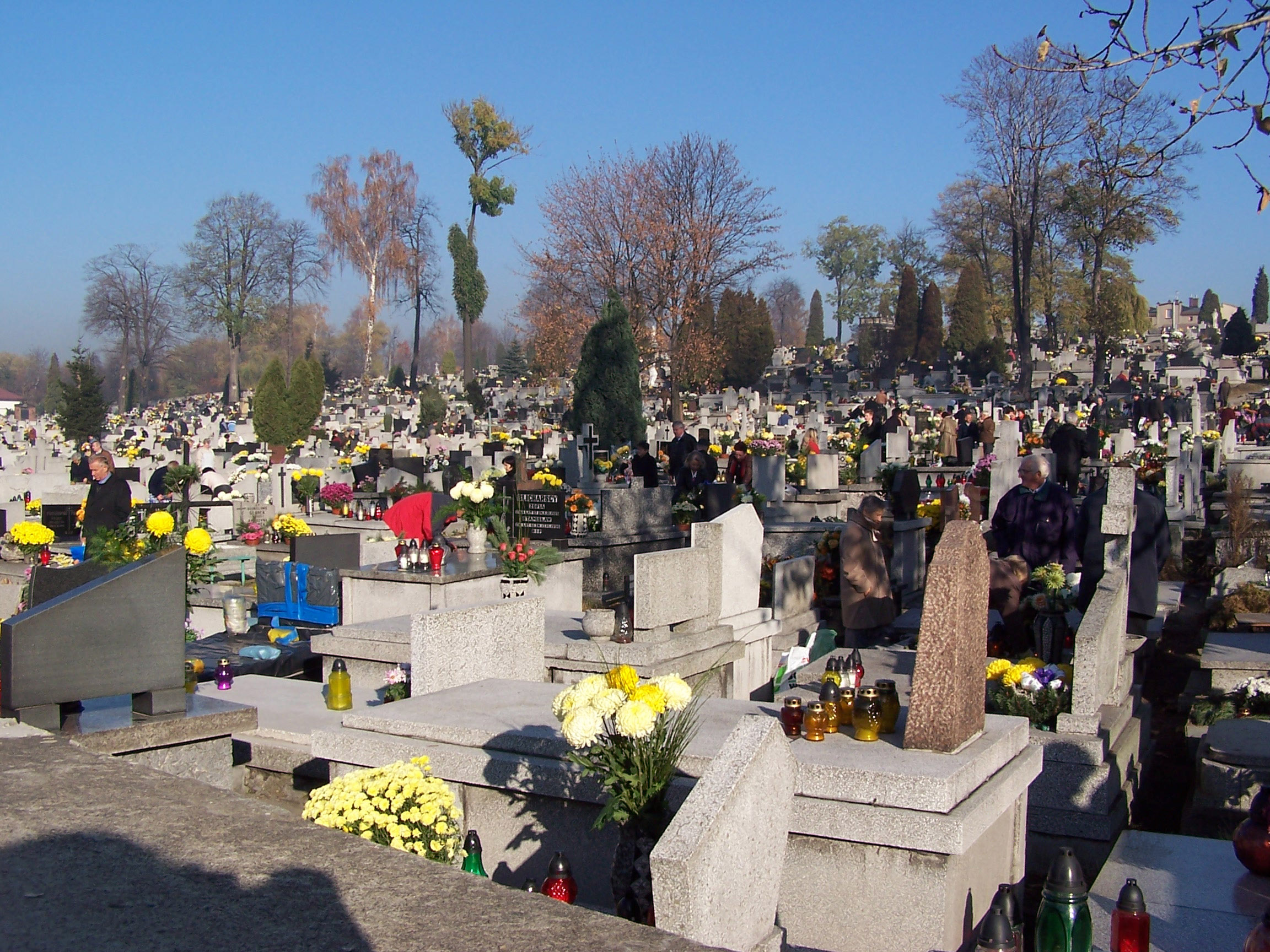 Photo made by my father. Cemetery in Czeladź, Poland. November 2005, 11, near All Saints day. //I just deleted the date :) -- Kangel 22:27, 6 January 2007 (UTC)//